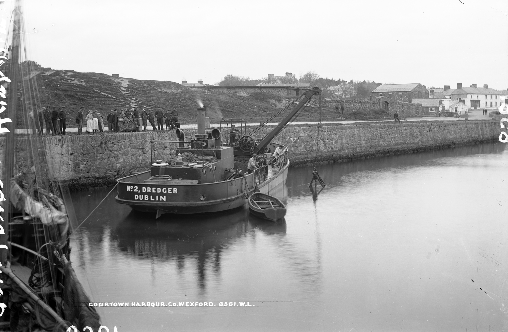 ... a-dredging in Courtown Harbour, Co. Wexford. Photographer: Almost certainly Robert French of Lawrence Photographic Studios, Dublin Date: Between circa 1906 and 1914 NLI Ref.: L_CAB_08581